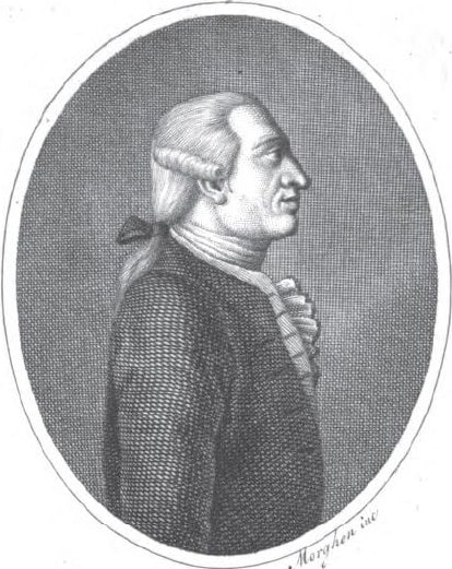 Gabriele Lancillotto Castello, SIcilian numismatist